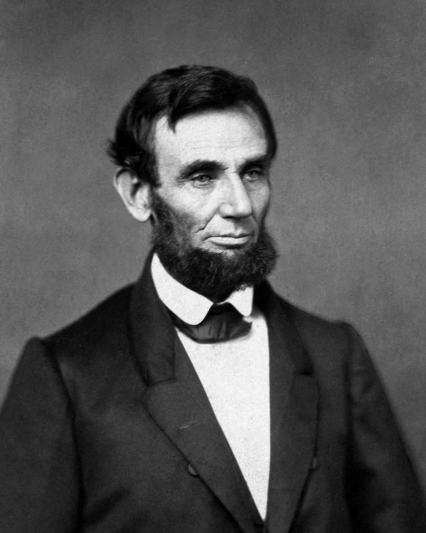 Abraham Lincoln. Salt print. Ostendorf O-55. The earliest presidential portrait of Lincoln.